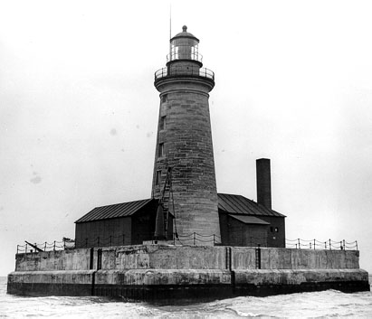 Public Domain statement here; Spectacle Reef Light is a lighthouse eleven miles east of the Mackinac Straits and is located at the Northern End of Lake Huron, Michigan.